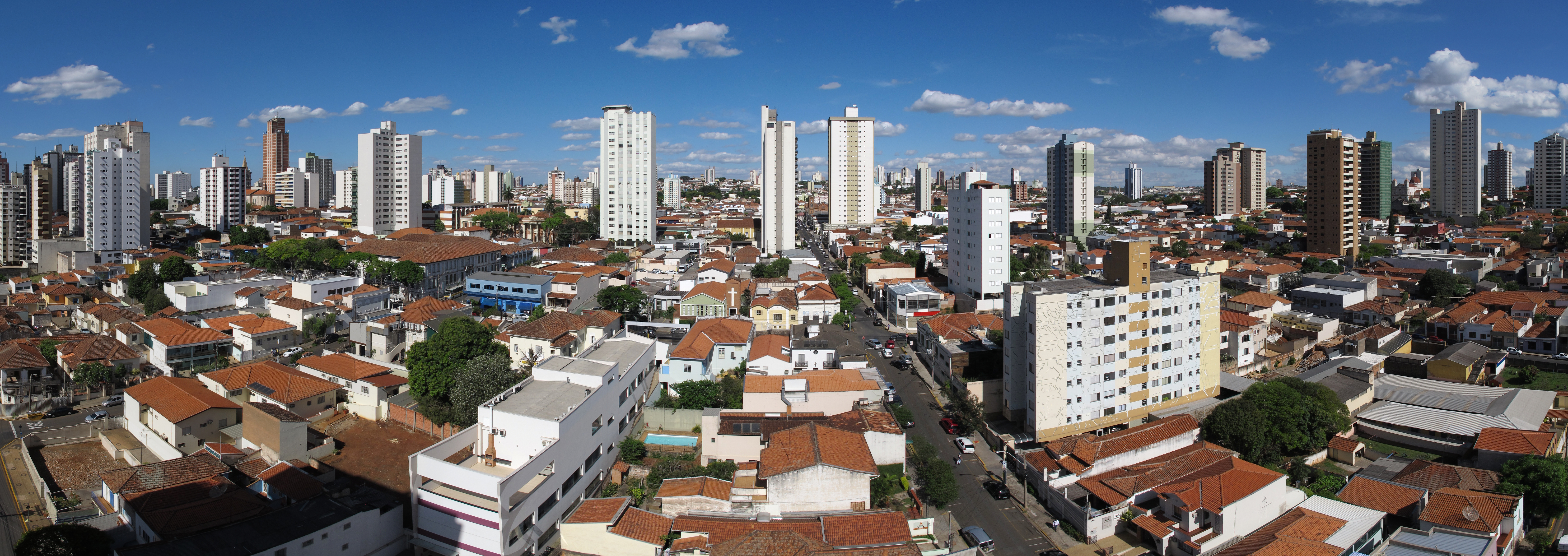 Panoramic view of Piracicaba.